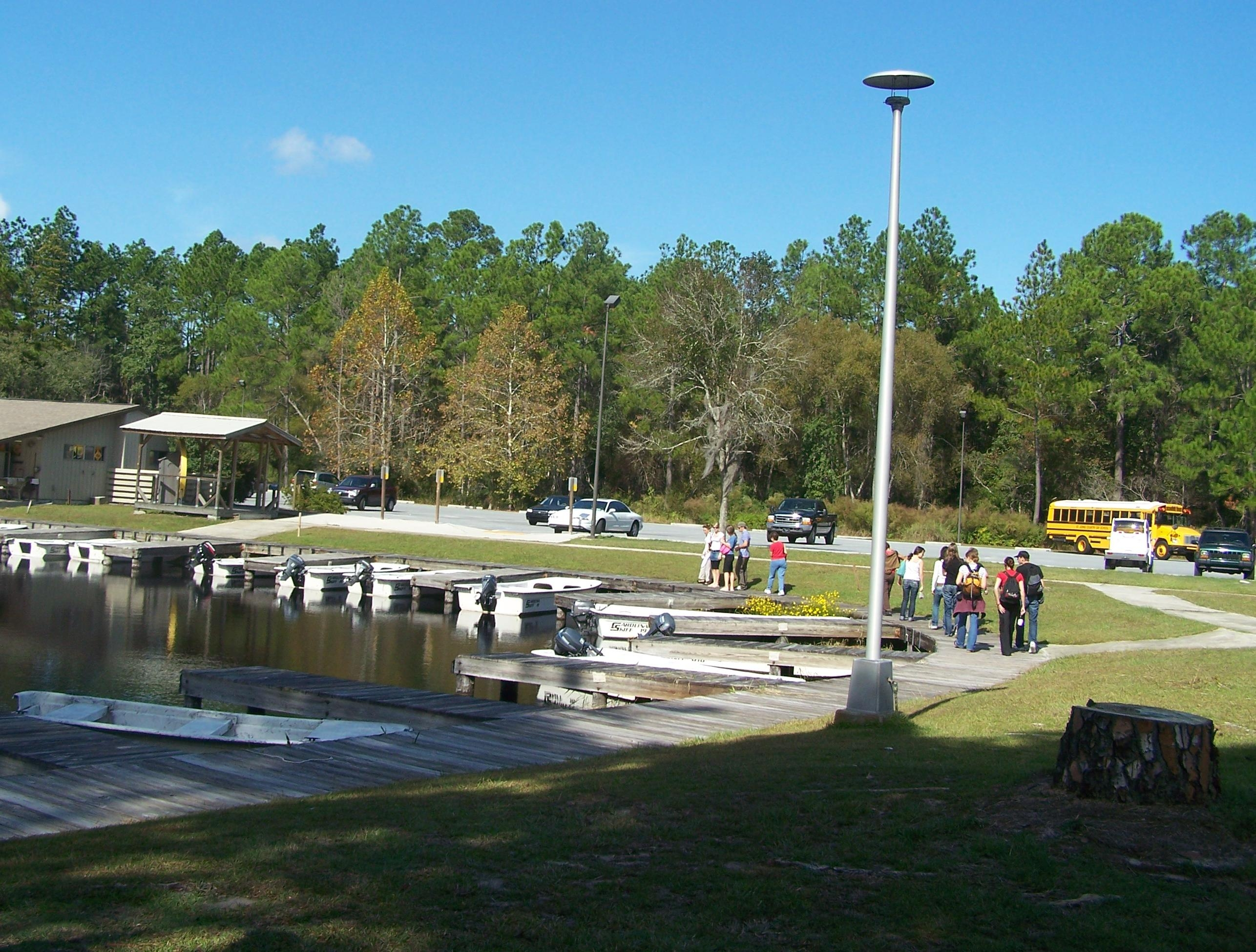 The Okefenokee National Wildlife Refuge entrance in the state of Georgia, USA.